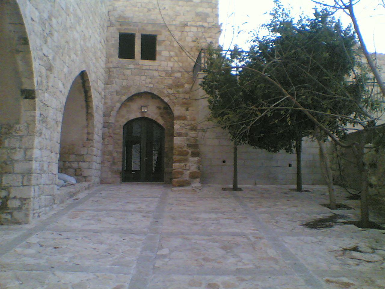 مدخل قلعة البرقاوي